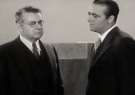 Jed Prouty (left) & James Hall in Manhattan Tower - cropped screenshot